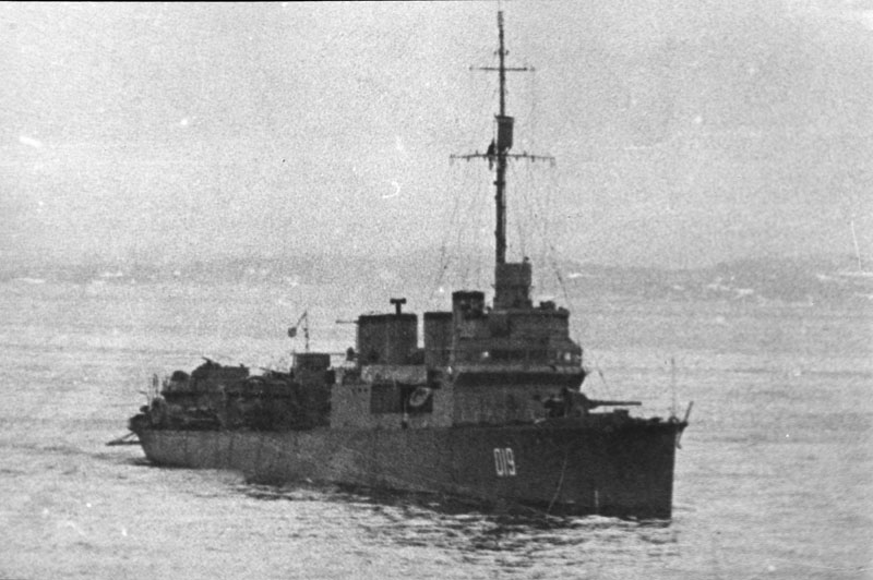 The Soviet destroyer Druzhnyi. Undated, location unknown.